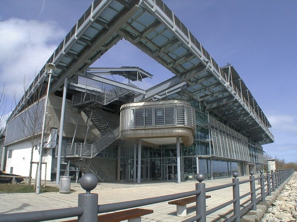 Front facia of the National Glass Centre in Sunderland, England.